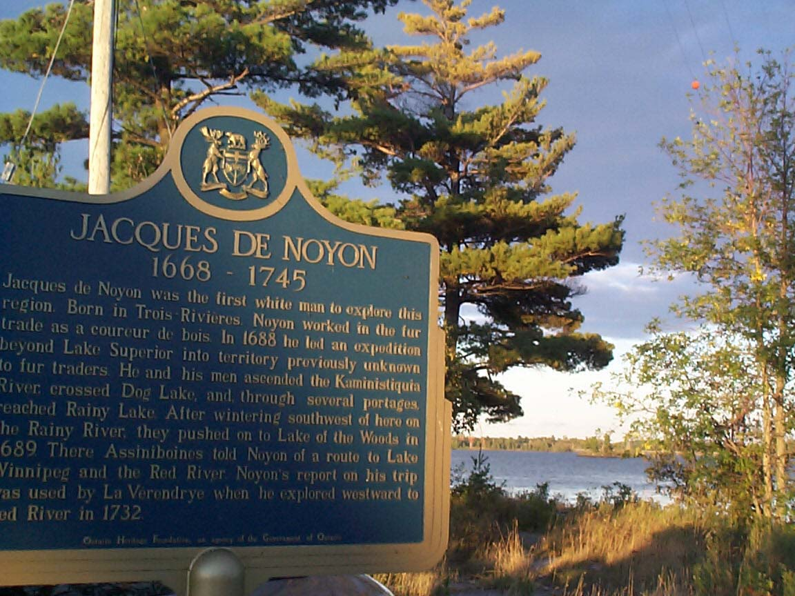 Jacques de Noyon (1668-1745) waymarker on Rainy Lake, Ontario